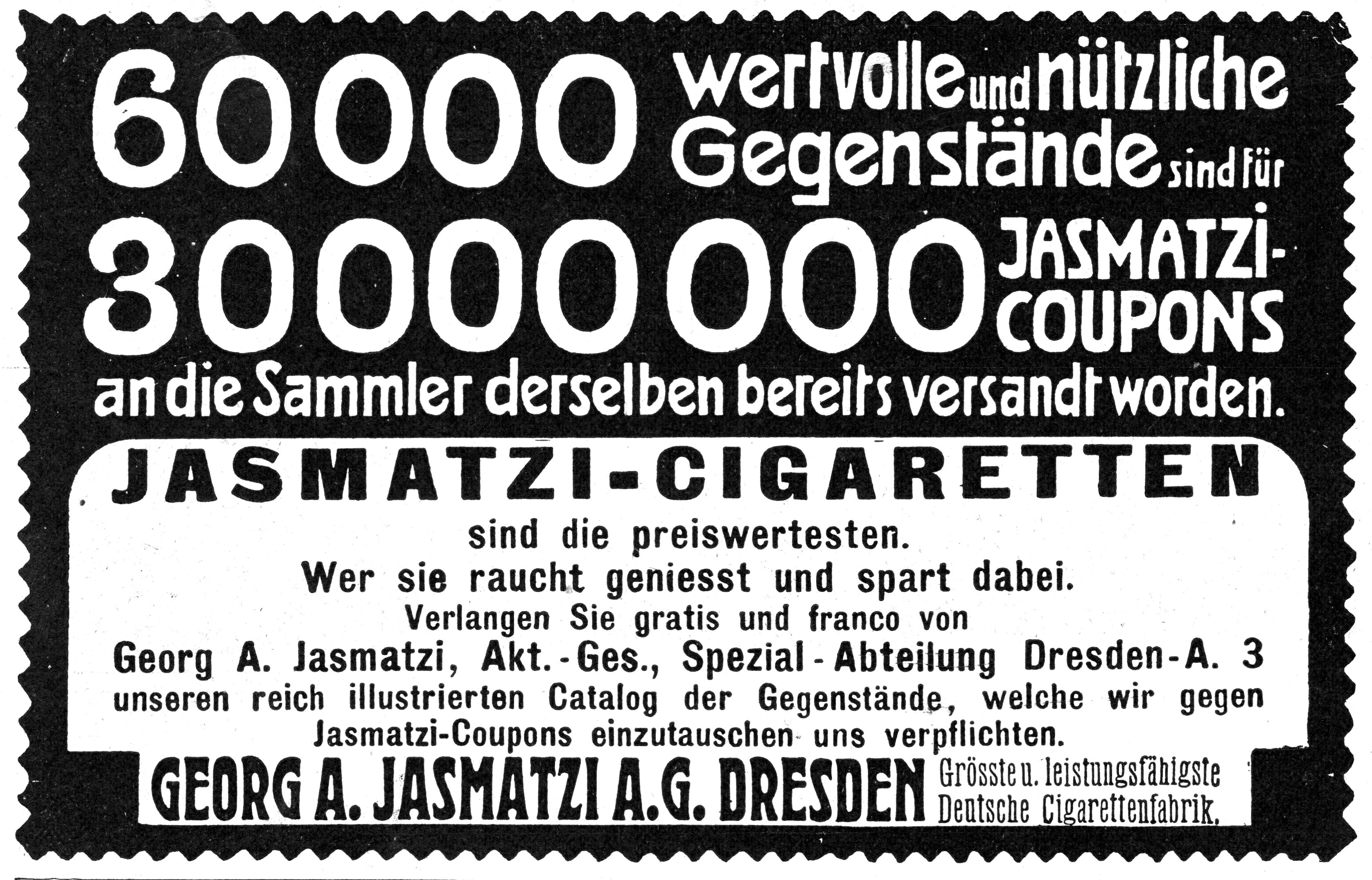 Advertisement of Georg A. Jasmatzi